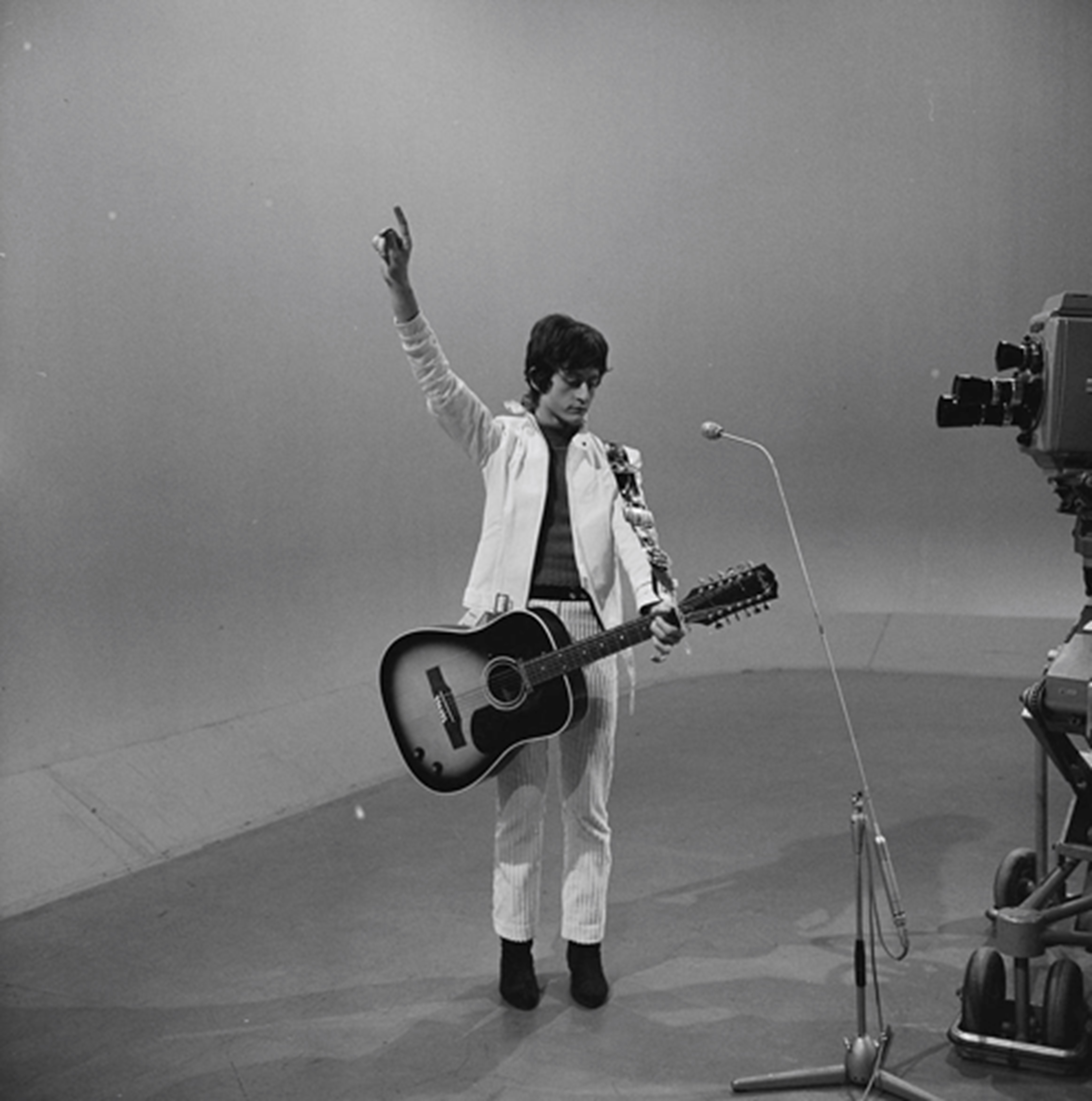 Michel Polnareff performing the songs "Love me please love me" and "Ta ta ta" on Dutch TV programme Fanclub, 14 March 1967